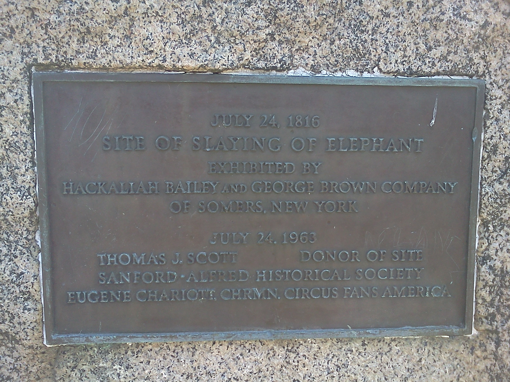 Photo is of the marker plaque for "Old Bet" the elephant located in Alfred, ME.